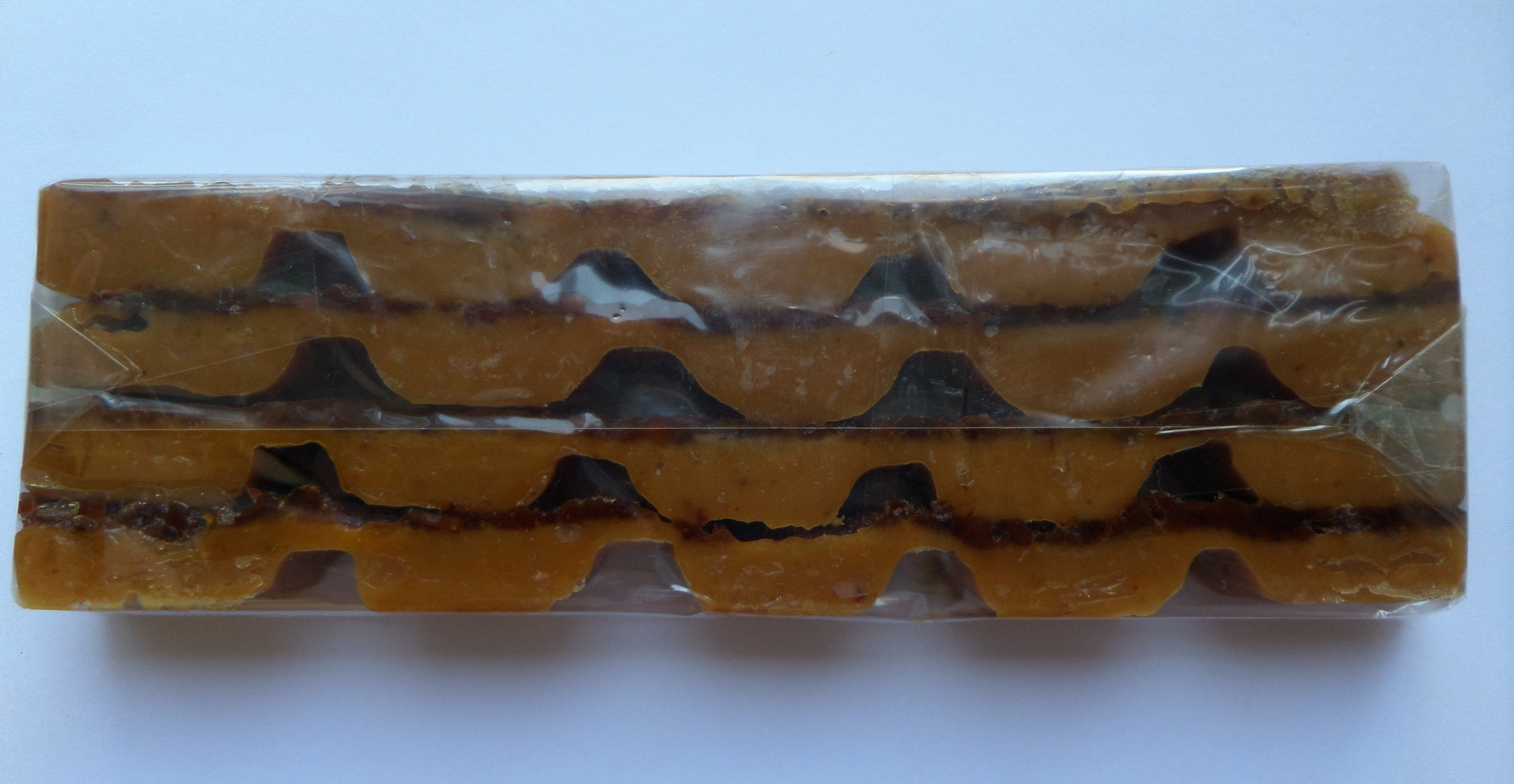 Image of sweet artisanal from Paraíba called Carolina